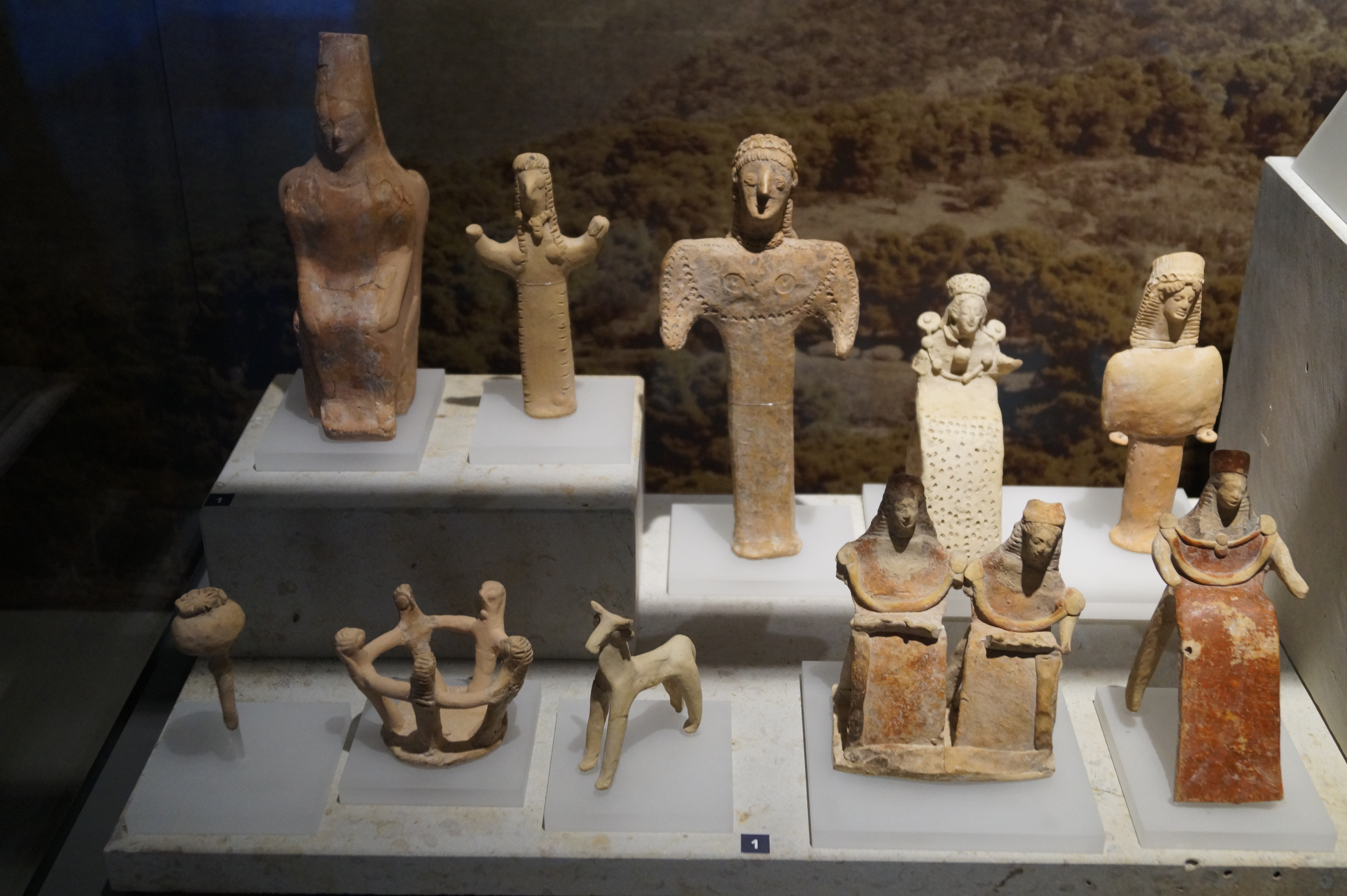 Corinth, Greece: Archaeological Museum: Finds (6th cent. BC) from the deposit of the temple of Solygeia (found in a collapsed chamber tomb).